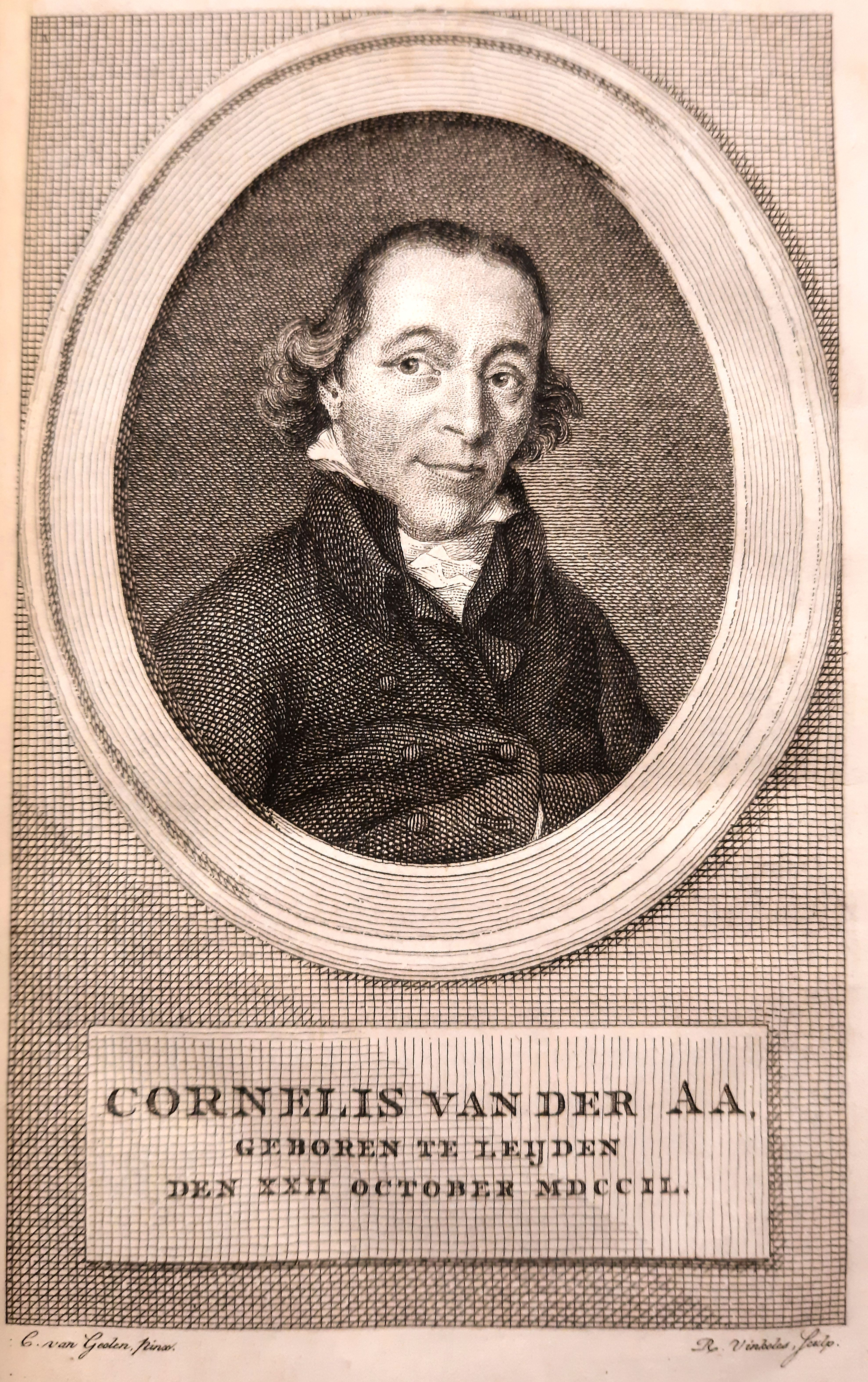 Cornelis van der Aa (1749-1815), Dutch author and bookseller